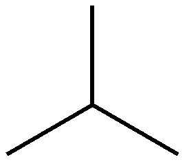 chemical structure of isobutane